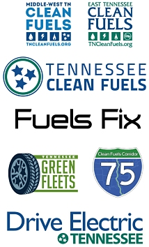 Mix of coalition and project logos related to the two Clean Cities Programs that operate in Tennessee.